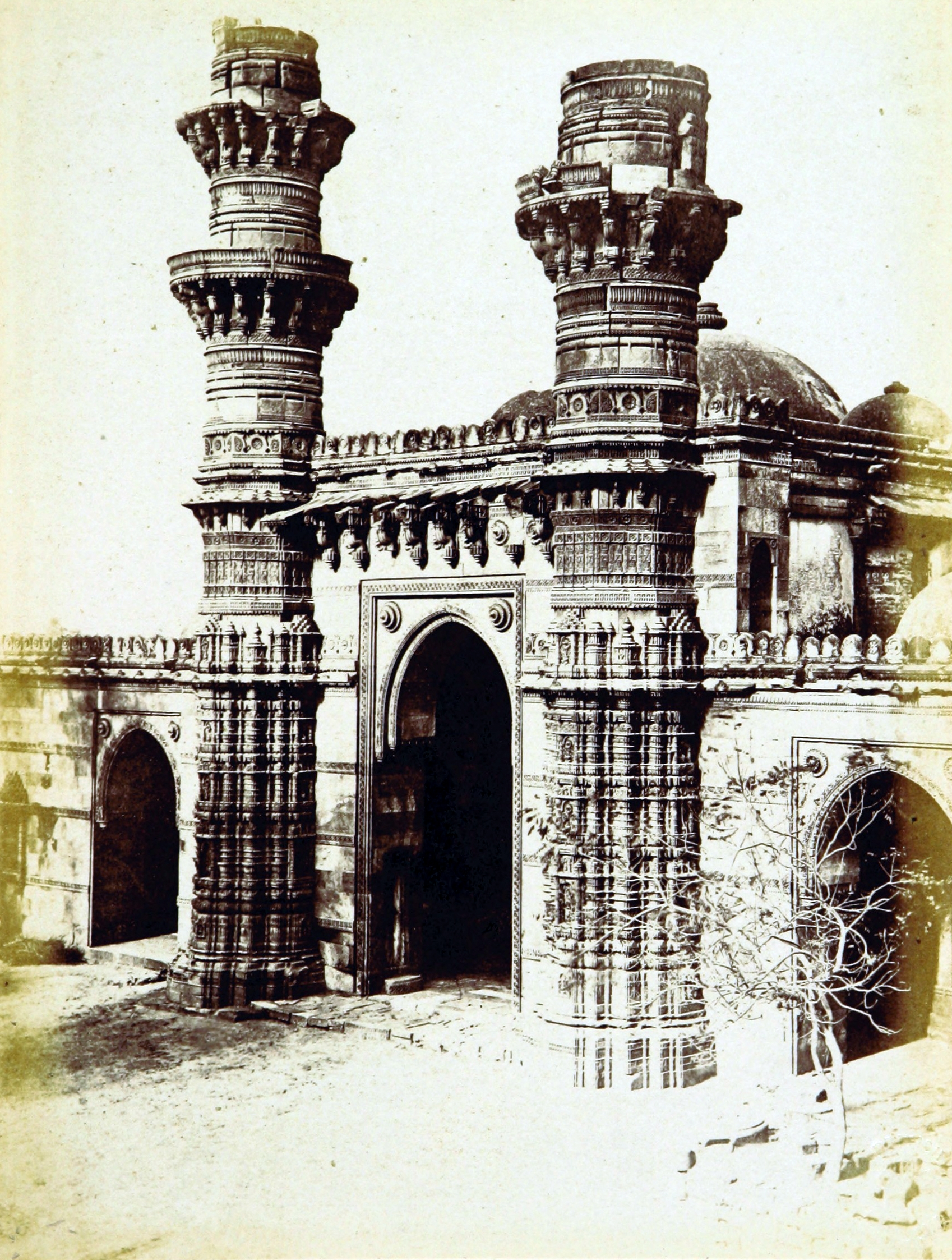 Image taken from: Title: "Architecture at Ahmedabad, the Capital of Goozerat, photographed by Colonel Biggs, ... With an historical and descriptive sketch, by T. C. H., ... and architectural notes by J. Fergusson, etc" Author: HOPE, Theodore Cracraft - Sir, K.C.S.I Contributor: BIGGS, Thomas. Contributor: FERGUSSON, James - Architect Shelfmark: "British Library HMNTS 10057.f.17.", "British Library OC V 6665" Page: 289 Place of Publishing: London Date of Publishing: 1866 Issuance: monographic Identifier: 001730119 Note: The colours, contrast and appearance of these illustrations are unlikely to be true to life. They are derived from scanned images that have been enhanced for machine interpretation and have been altered from their originals. If you wish to purchase a high quality copy of the page that this image is drawn from, please order it here. Please note that you will need to enter details from the above list - such as the shelfmark, the page, the book's volume and so on - when filling out your order. Following this or the link above will take you to the British Library's integrated catalogue. You will be able to download a PDF of the book this image is taken from, as well as view the pages up close with the 'itemViewer'. Click on the 'related items' to search for the electronic version of this work. Click here to see all the illustrations in this book and click here to browse other illustrations published in books in the same year. Please click on the tags shown on the right-hand side for other ways to browse the illustrations.